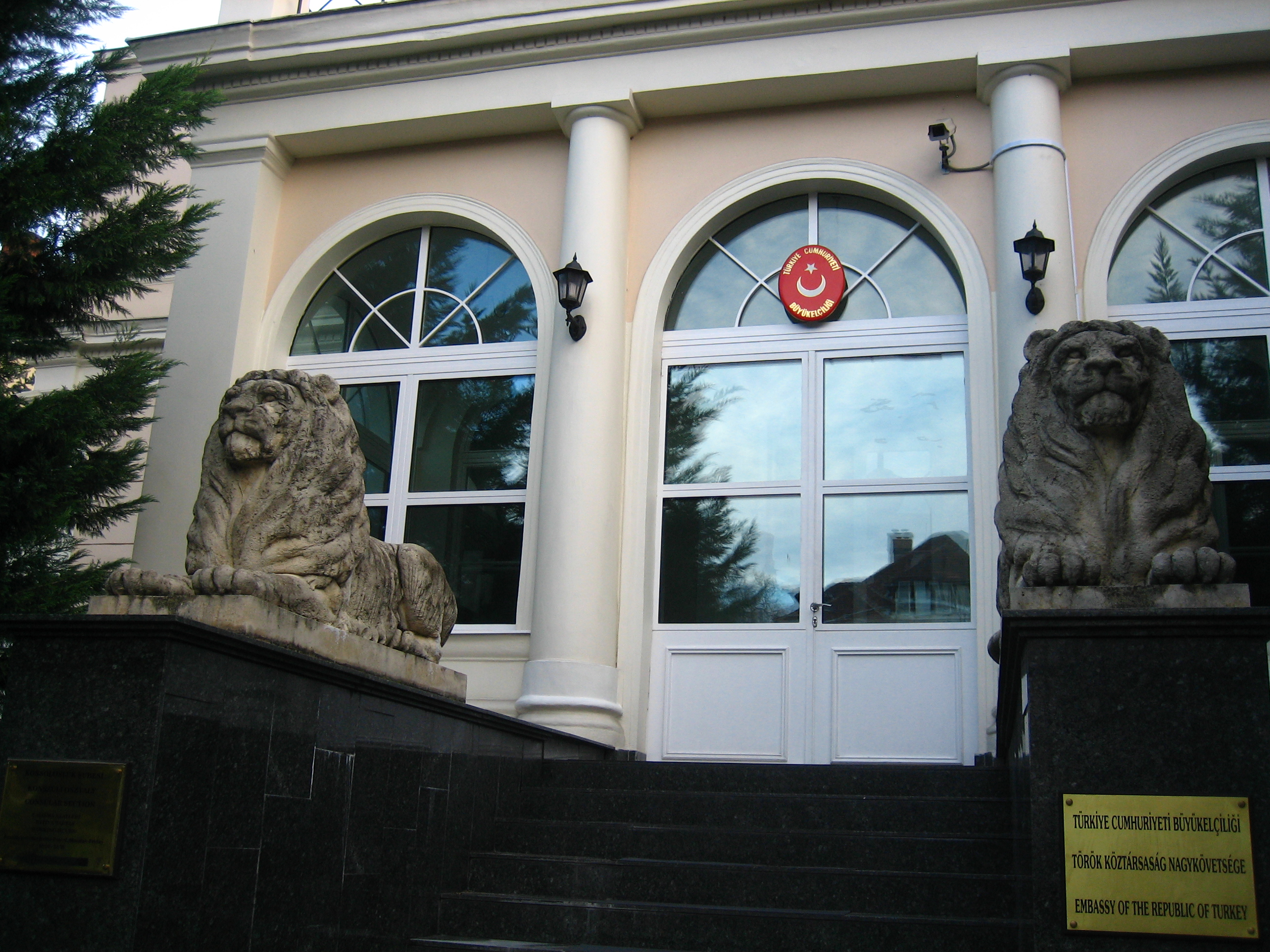 Embassy of Turkey in BudapestTürkçe: Türkiye Cumhuriyeti Budapeşte BÜyükelçiliği